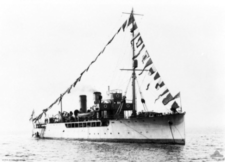 The Australian Navy sloop HMAS Geranium.